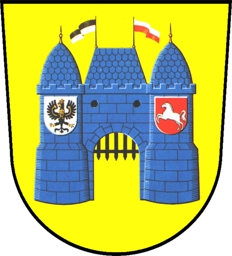 Coat of arms of Charlottenburg.